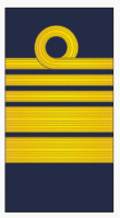 Sleeve insignia of Kaigun Taishō (Naval General)